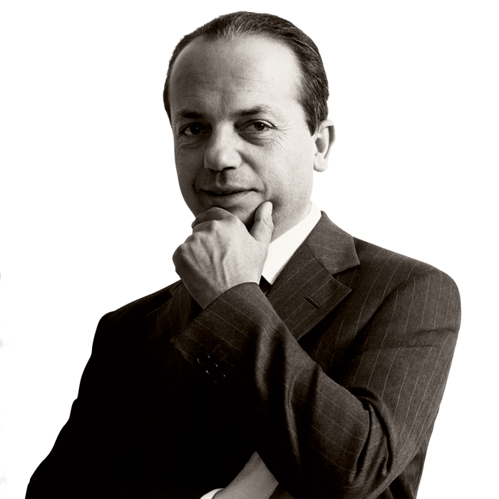 Christophe Claret, french watchmaker, founder of Christophe Claret Manufacture which makes complicated Swiss watches for brands.